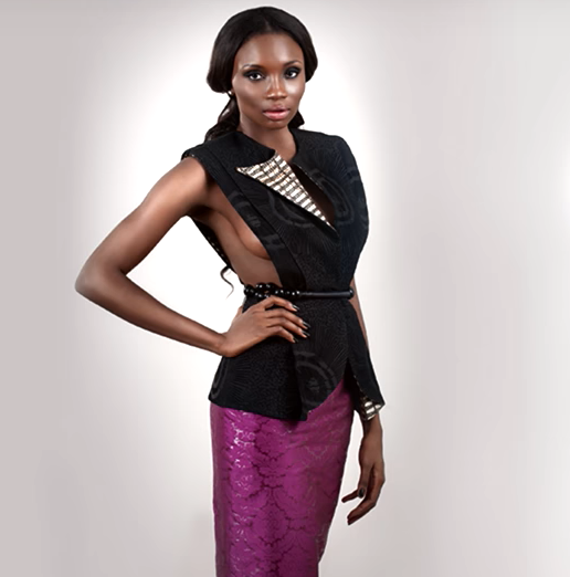 2014 Another Christie Brown design as featured on NdaniTV by Aisha Ayensu